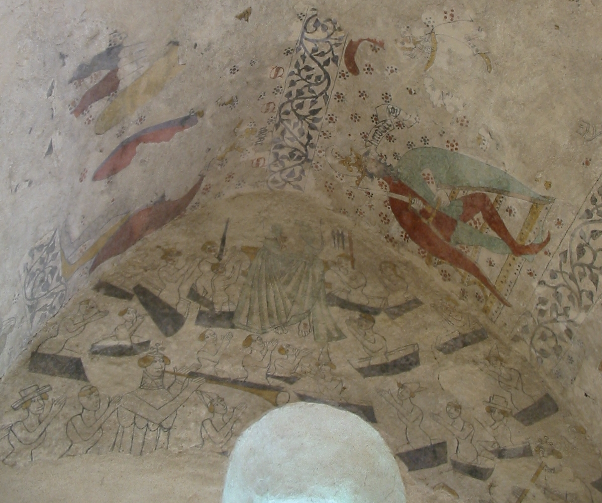 Resurrection, Chapelle ès Pêcheurs (Fishermen's Chapel), St. Brelade, Jersey Photo taken by Man vyi with Canon PowerShot A40 on 8/7/2005